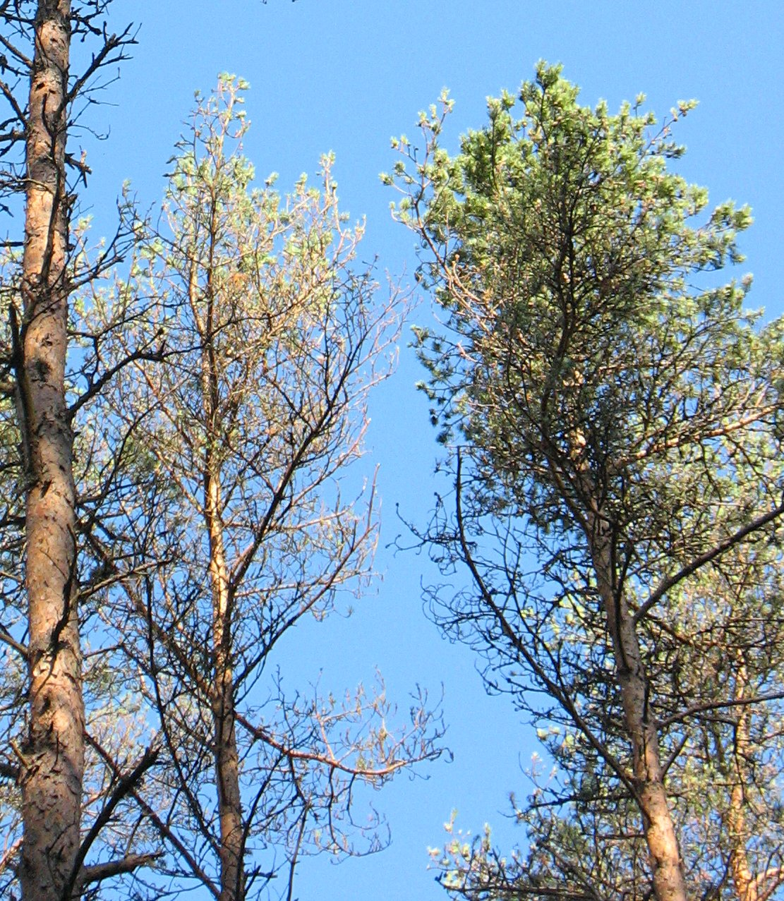 Neodiprion sertifer infested pines (western Finland)